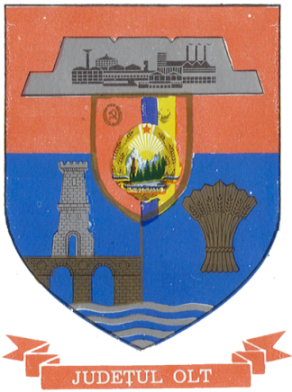 Communist coat of arms of Olt County, Socialist Republic of Romania.